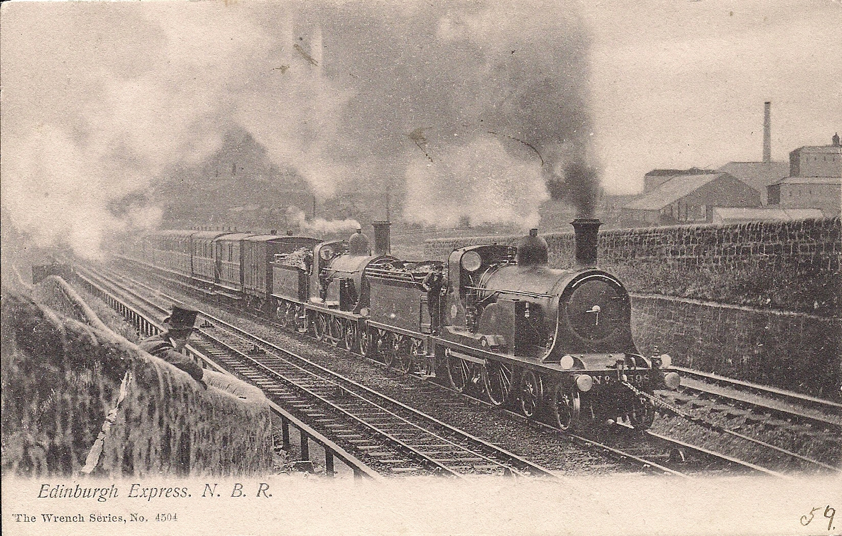 Edinburgh Express (North British Railway); NBR N Class / LNER D25 Class No. 598 piloting another, unidentified, NBR 4-4-0 up Cowlairs bank. Rope haulage assistance is being provided.